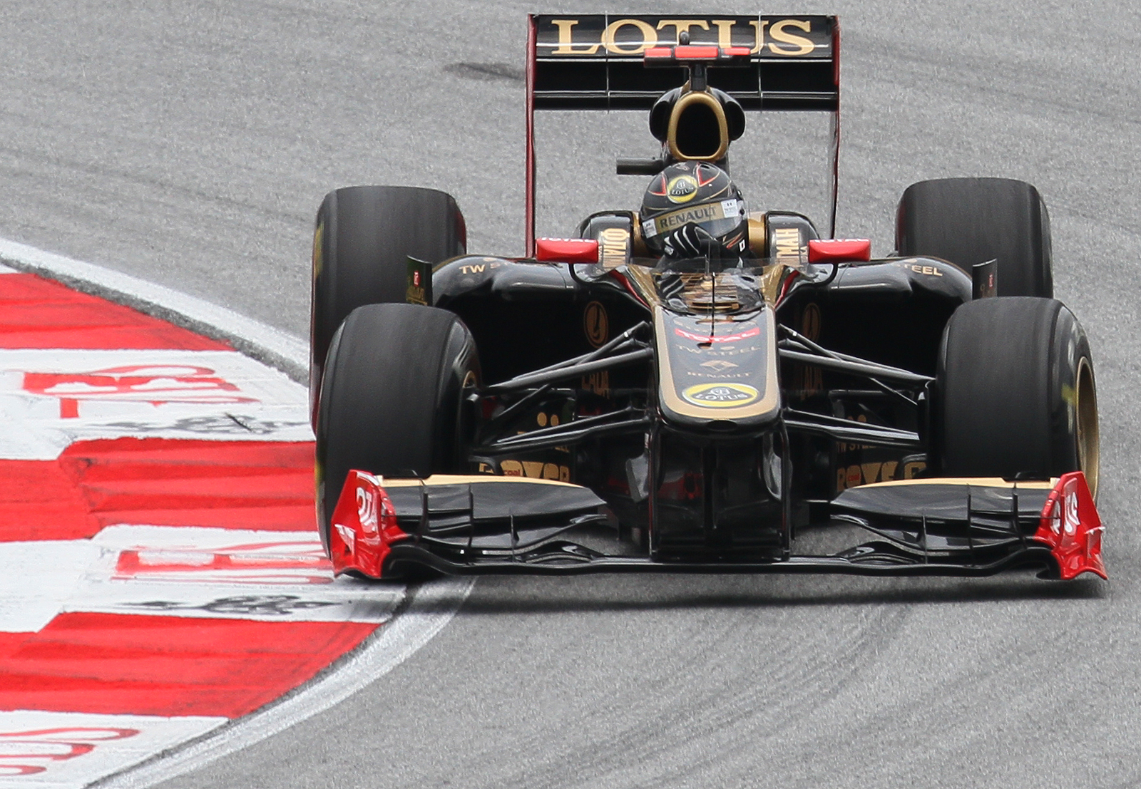 Formula One 2011 Rd.2 Malaysian GP: Nick Heidfeld (Renault) during the third practice session on Saturday.